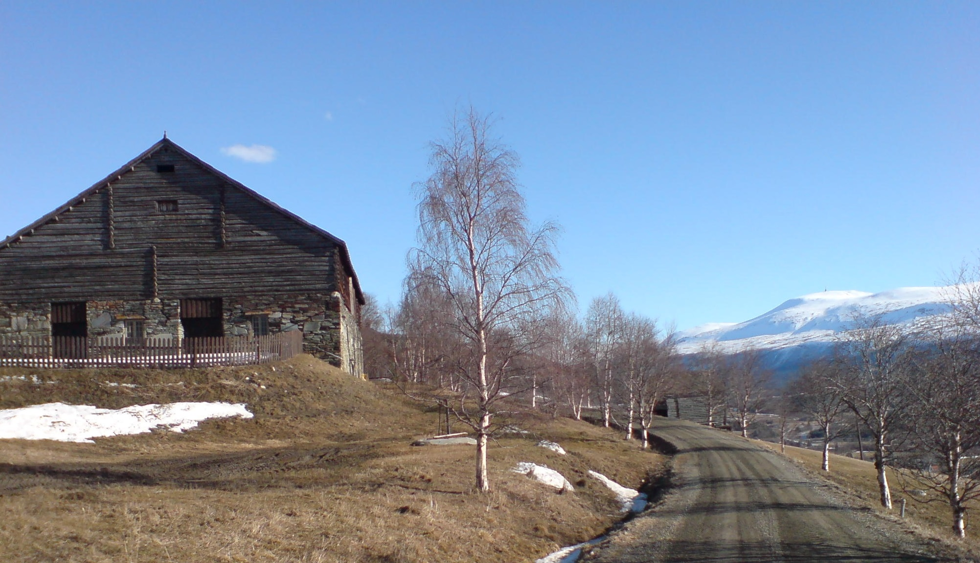 Tofte farm in Dovre area. View to Jetta summit.